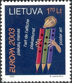 Europa 2003.Poster Art. Date of issue: 19th April 2003 Designer: B. Leonavichius Paper: coated Printing process: ofset Perforation: comb 13 1/4 : 13 Size of a stamp: 30 x 35,50 mm Size of the Miniature Sheet: 174 x 92 mm Miniature Sheet composition: 10 (5 x 2) stamps Printing run: 500.000 stamps or 50.000 Miniature Sheets Michel catalogue number: 816 1,70 L. multicoloured. The poster